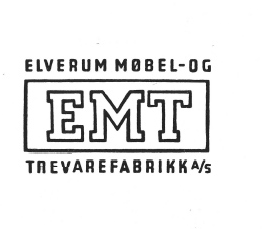 Another EMT signature from Olav Haug